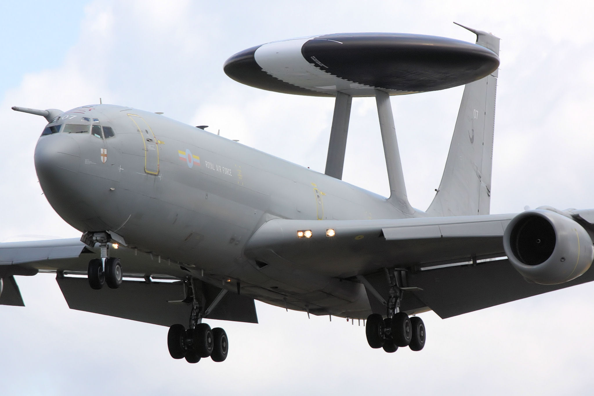 E3D Sentry - RIAT 2009